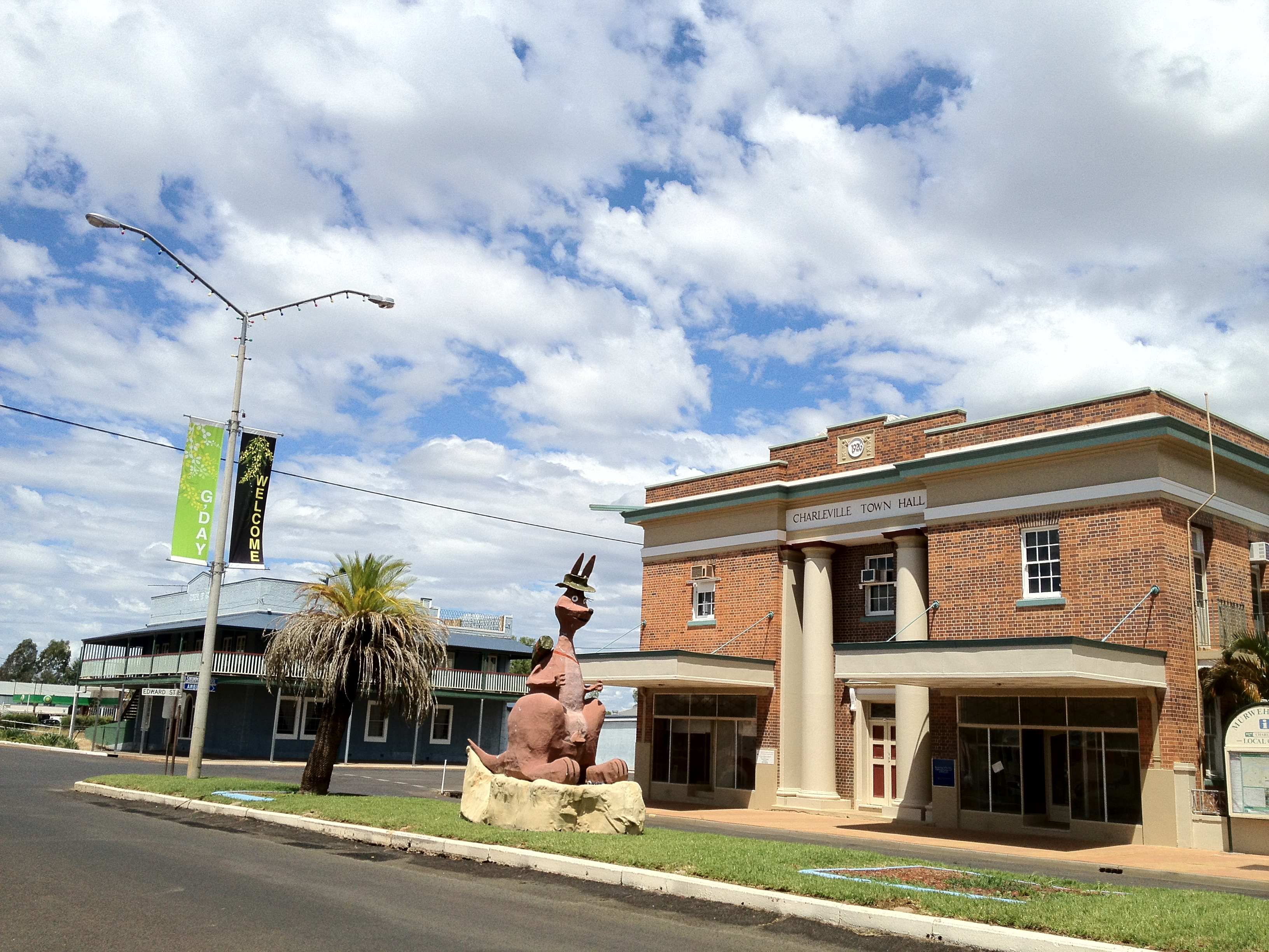 The front of the town hall at Charleville, Queensland, with a large Kangaroo mascot.